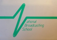 National Broadcasting School logo 1981